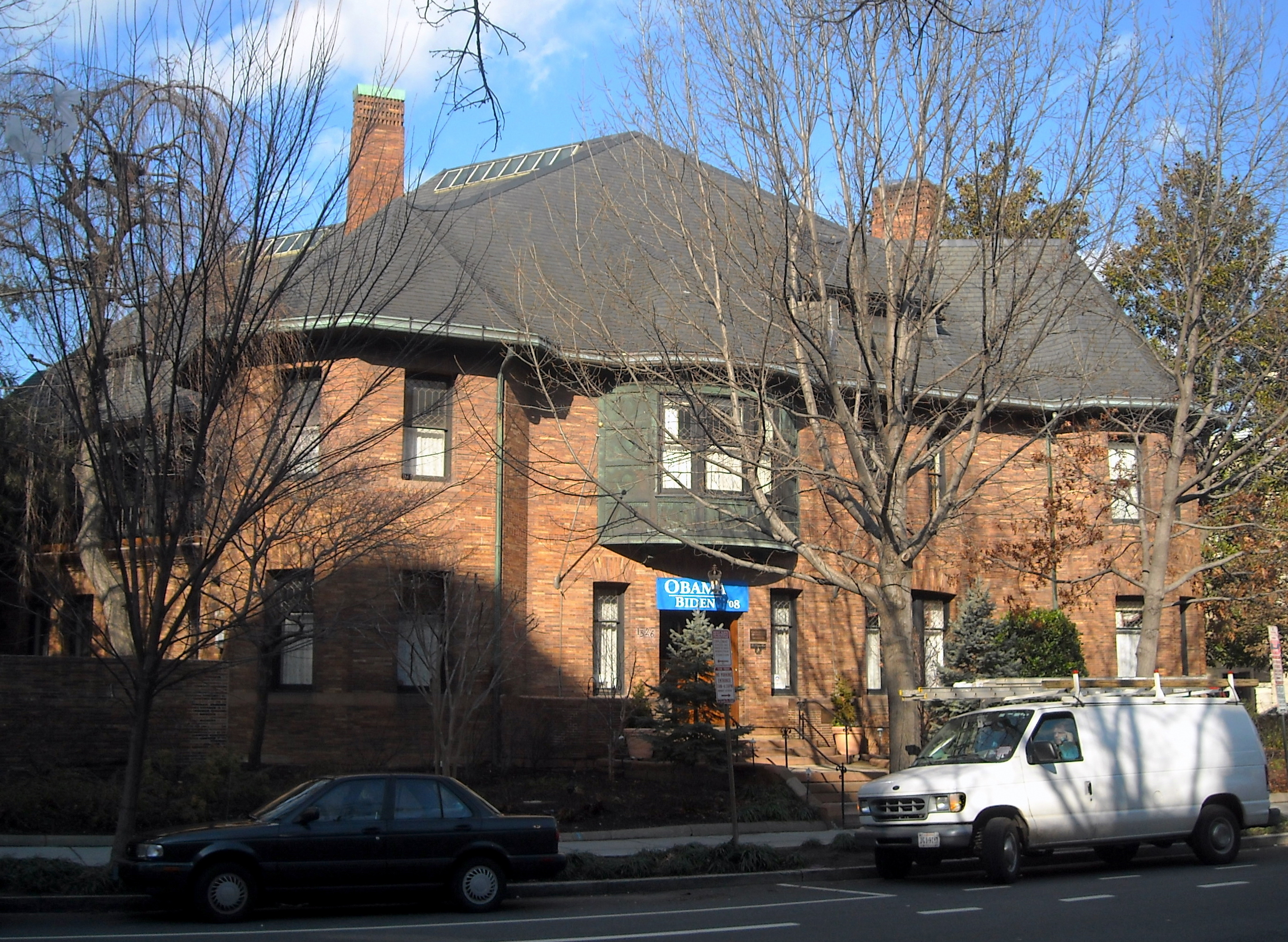 The Sarah Adams Whittemore House (commonly referred to as the Whittemore House) located at 1526 Hampshire Avenue, NW in the Dupont Circle neighborhood of Washington, D.C. It was designed by architect Harvey L. Page in 1892. The building is now home to the Woman's National Democratic Club and WNDC Museum. The Whittemore House is listed on the National Register of Historic Places and is a contributing property to the Dupont Circle Historic District.